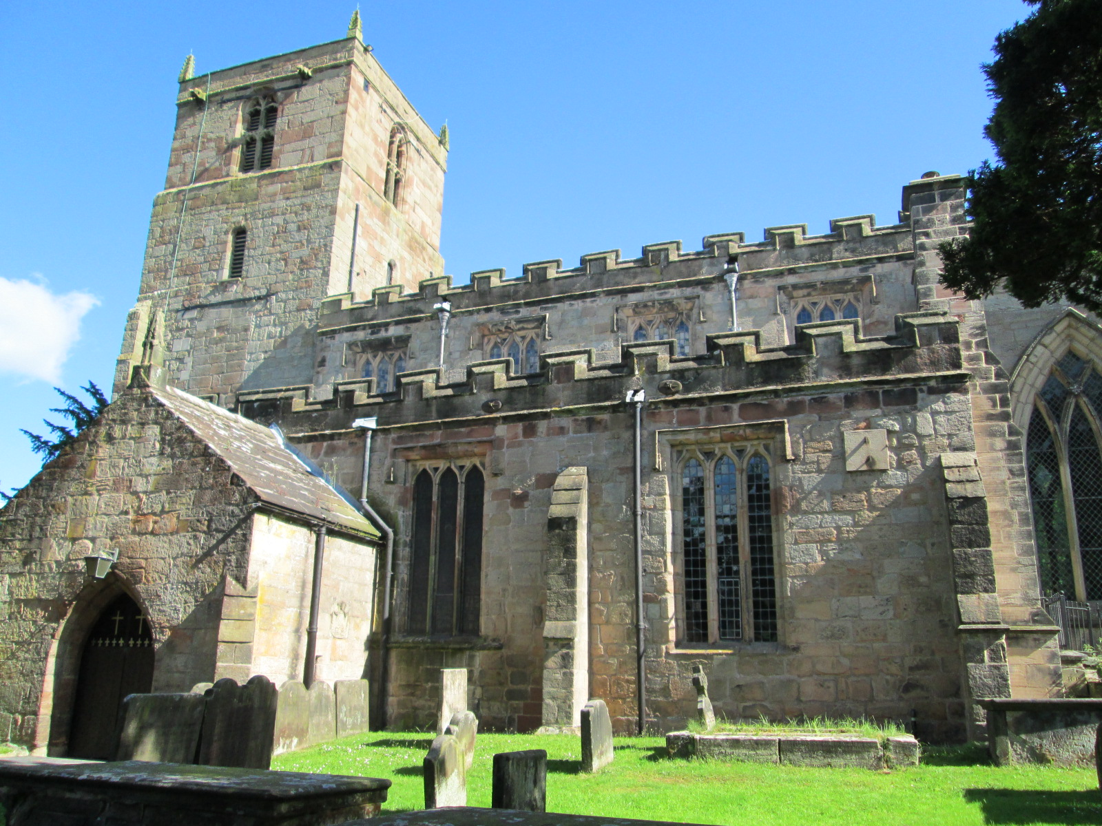 St Mary and All Saints Church, in Checkley, Staffordshire: view of the south entrance, tower and nave.